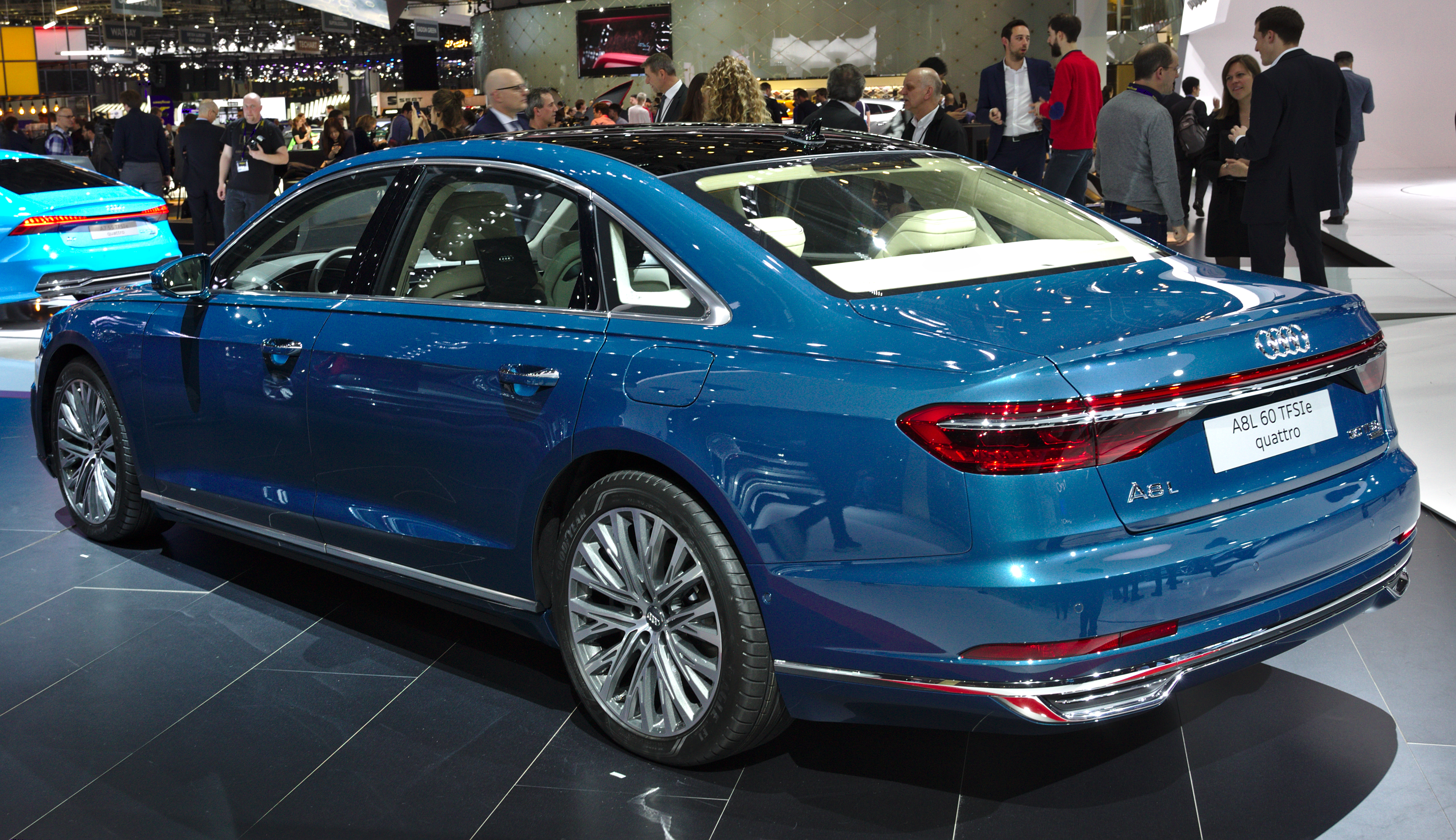 Audi A8L 60 TFSIe Quattro at Geneva Motor Show 2019